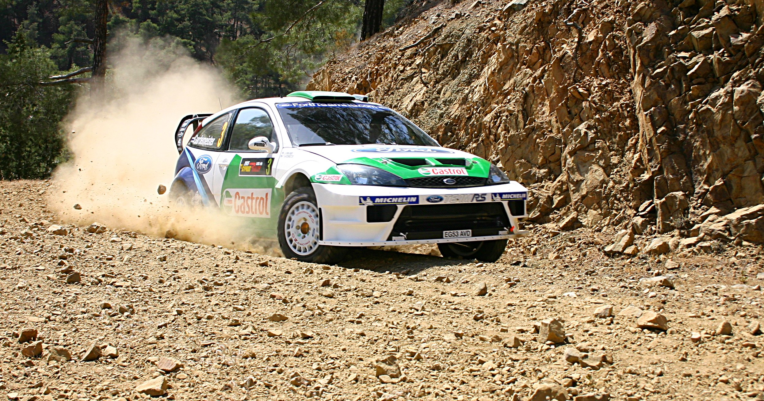 Toni Gardemeister driving his Ford Focus RS WRC 05 at the 2005 Cyprus Rally.